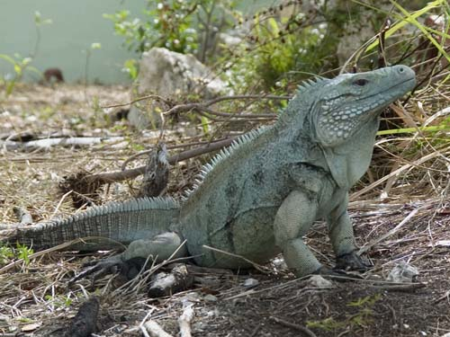 Adult male Grand Cayman Blue Iguana. Photo by Frederic J. Burton.